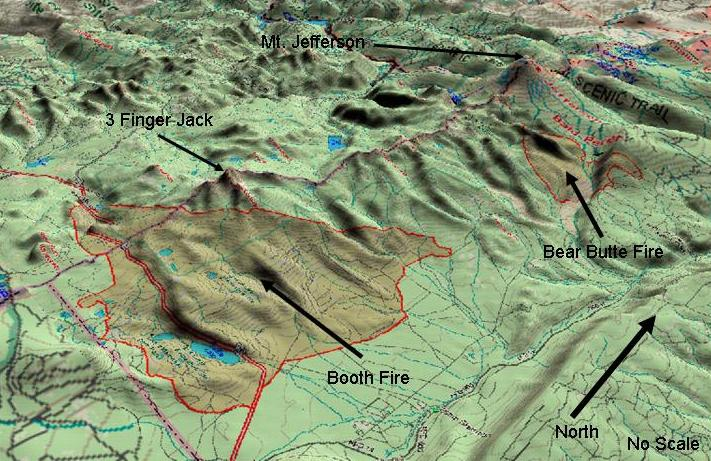 Map of the B&B Complex Fires in the Cascade Mountains of Oregon, as of 26 August 2003